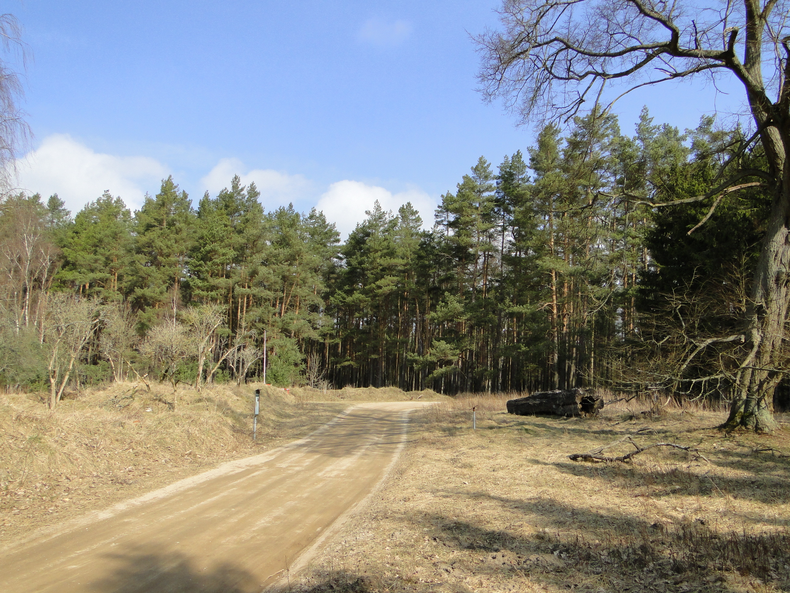 Grüner Jäger (abandoned village), district Parchim, Mecklenburg-Vorpommern, Germany